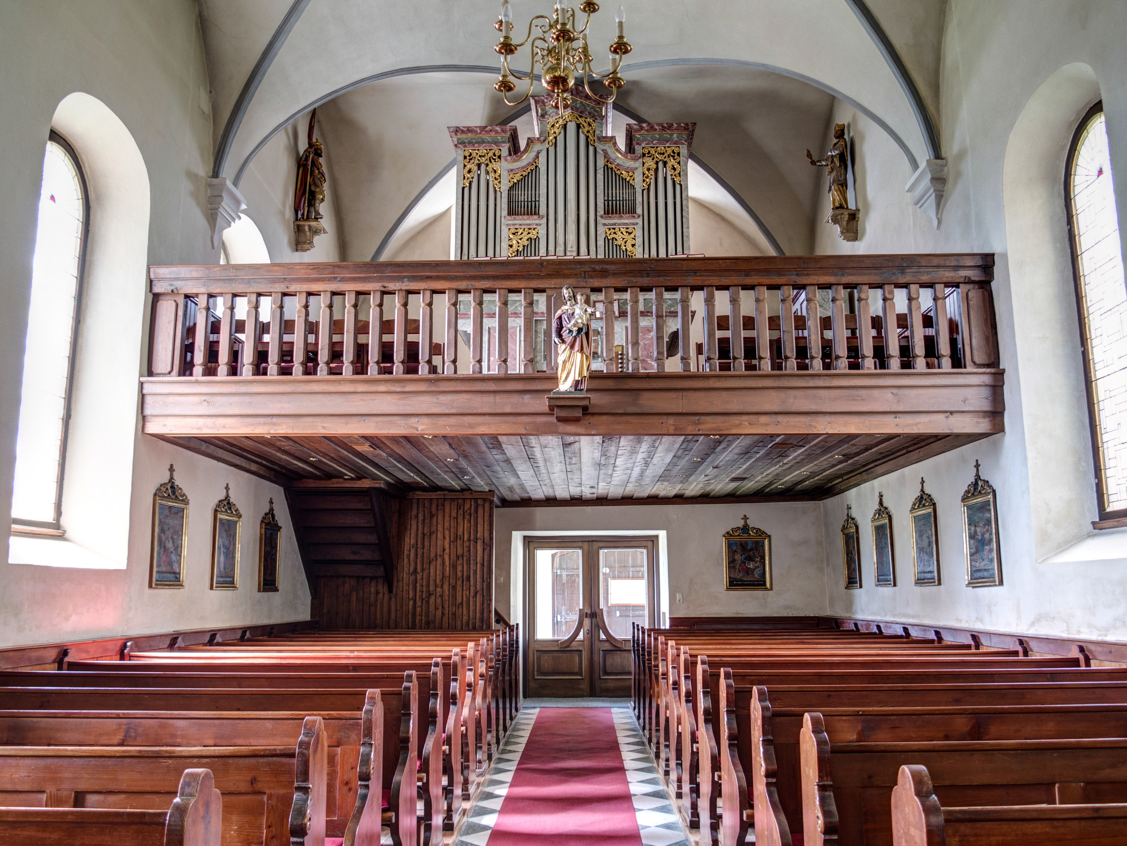 Choir and organ of the church in Obermillstatt near (Millstätter See), district Spittal an der Drau in Carinthia / Austria / EU.